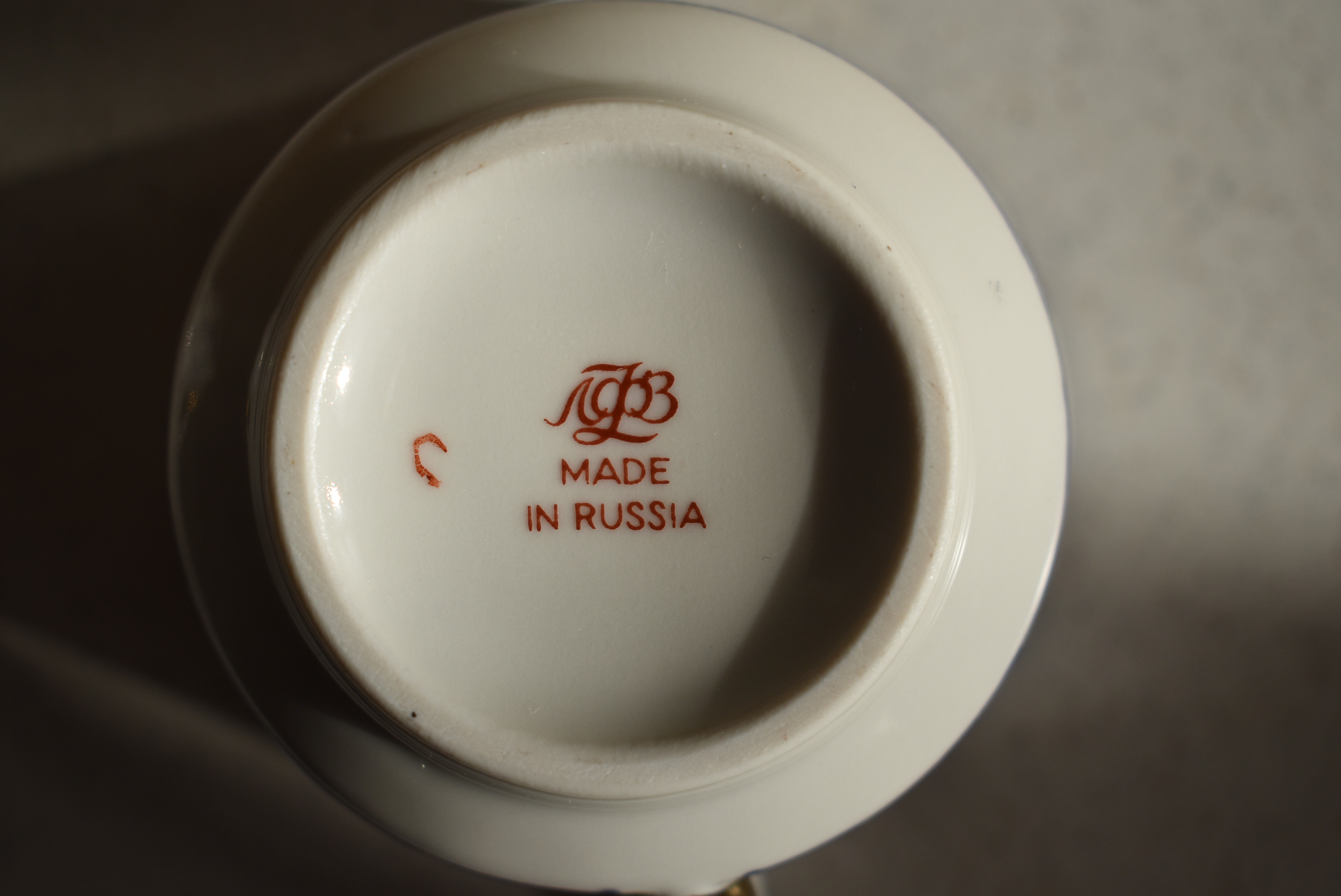 Brand and sign from the Imperial Porcelain Factory in St. Petersburg_Leningrad on the back of cup